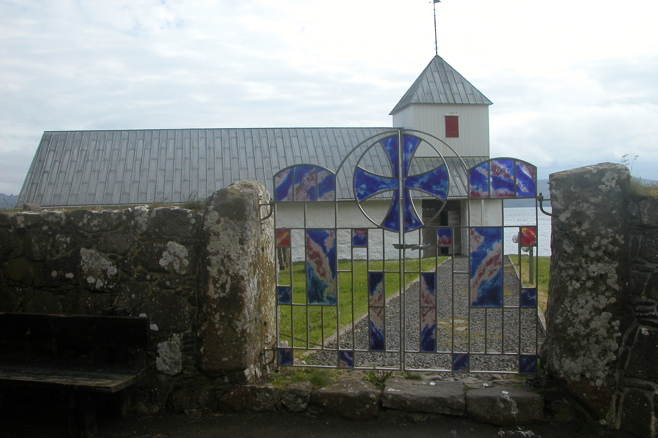 Saint Olav's church in Kirkjubøur on Streymoy, Faroe Islands